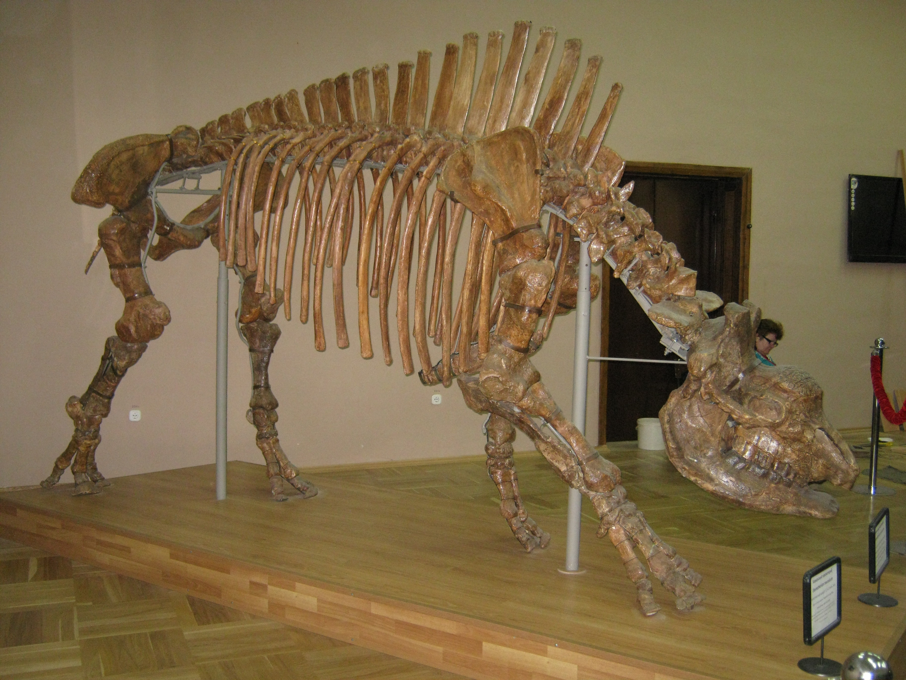 Skeleton Elasmotherium caucasicum in Azov historical and archaeological and paleontological museum-reserve.